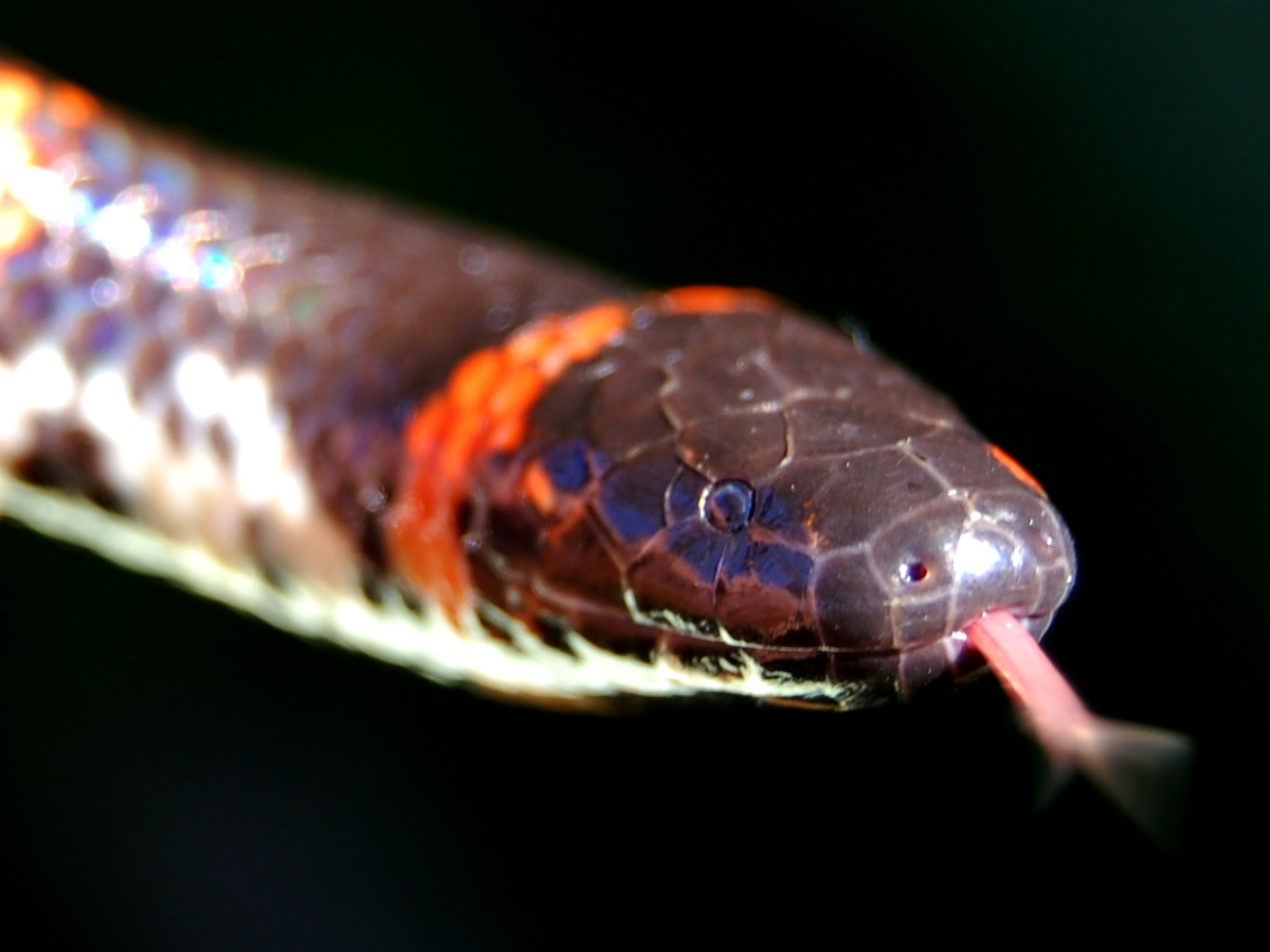 Javan pipe-snake, Cylindrophis ruffus; from Bogor, West Java, Indonesia. Head close up, showing its head scalation.